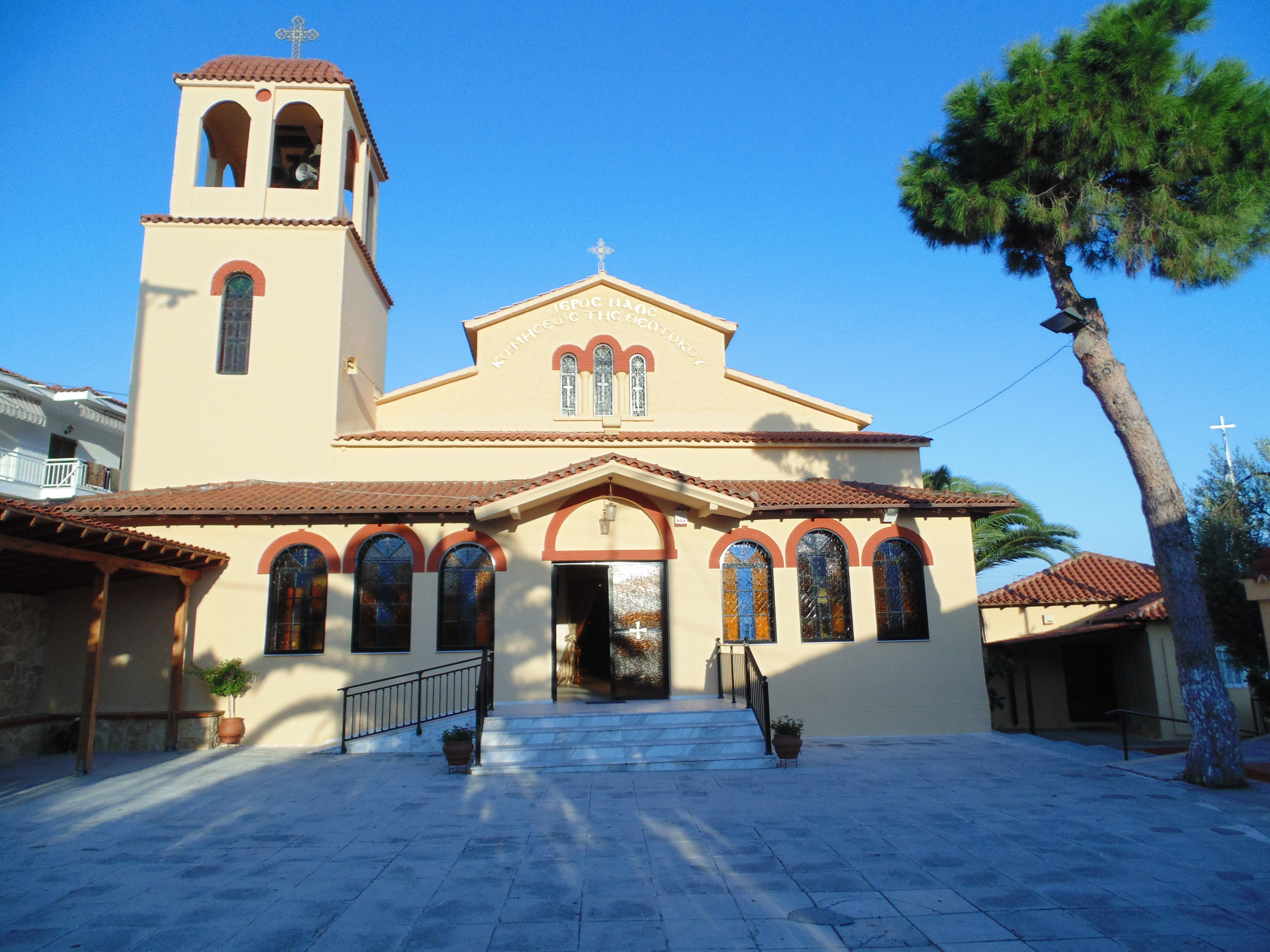 Sarti 630 72, Greece